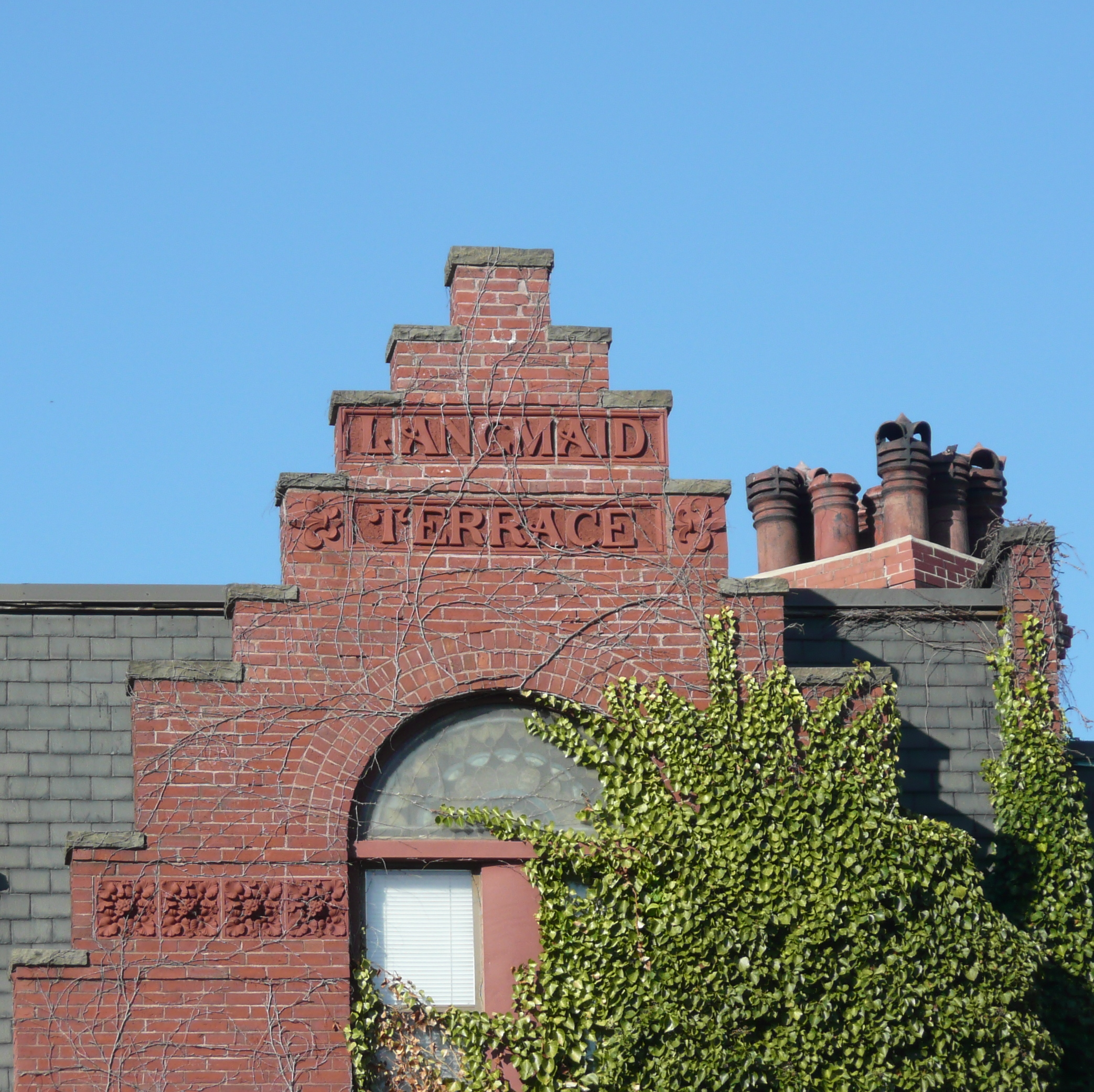 Closeup of the sign identifying the Langmaid Terrace. The Langmaid Terrace is a historic apartment complex at 359--365 Broadway in Somerville, Massachusetts.